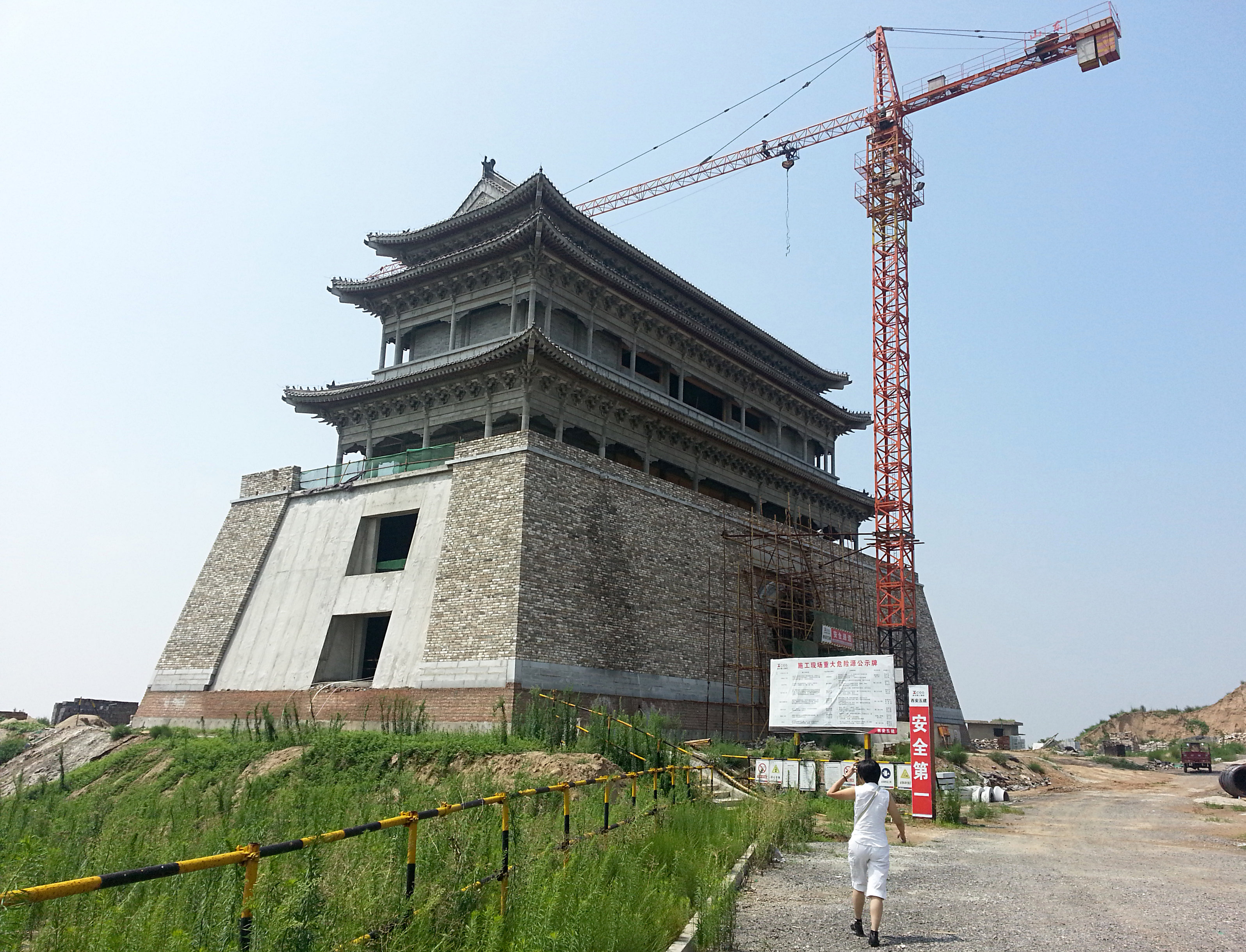 Photograph of the reconstruction of the Tongguan gate tower in progress in July 2013.